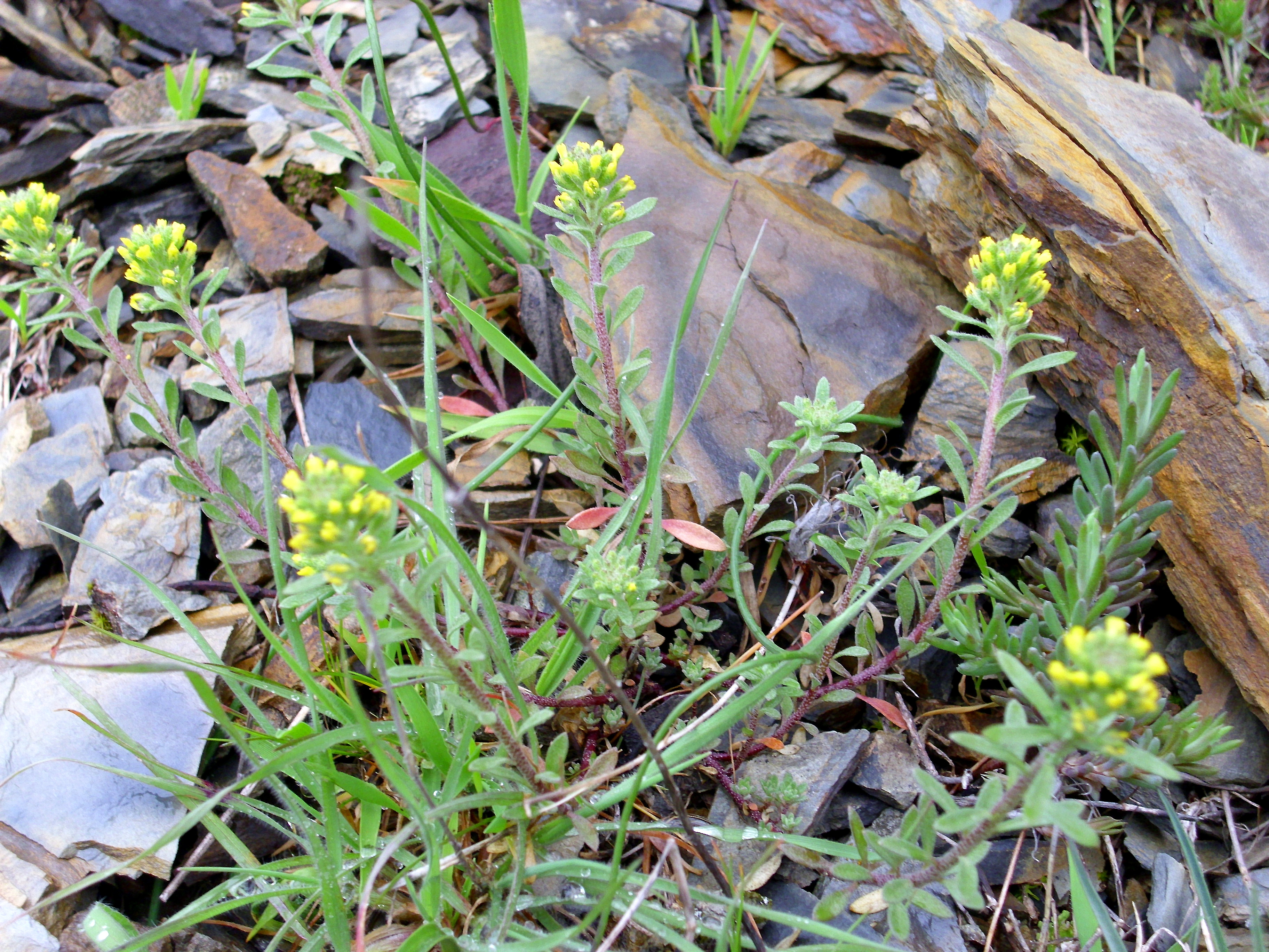 Alyssum granatense Habit, Sierra Madrona, Spain